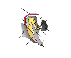 I created this using Inkscape. It is a diagram of the eardrum and the bones, and muscles of the middle ear. This picture is wrong about the insertion of the tensor tempani to the malleus. The very old picture of Tillaux is correct : Tillaux Paul Jules, Traité d’Anatomie topographique avec applications à la chirurgie, Paris Asselin et Houzeau publishers (4°ed. 1884, p.125 ).